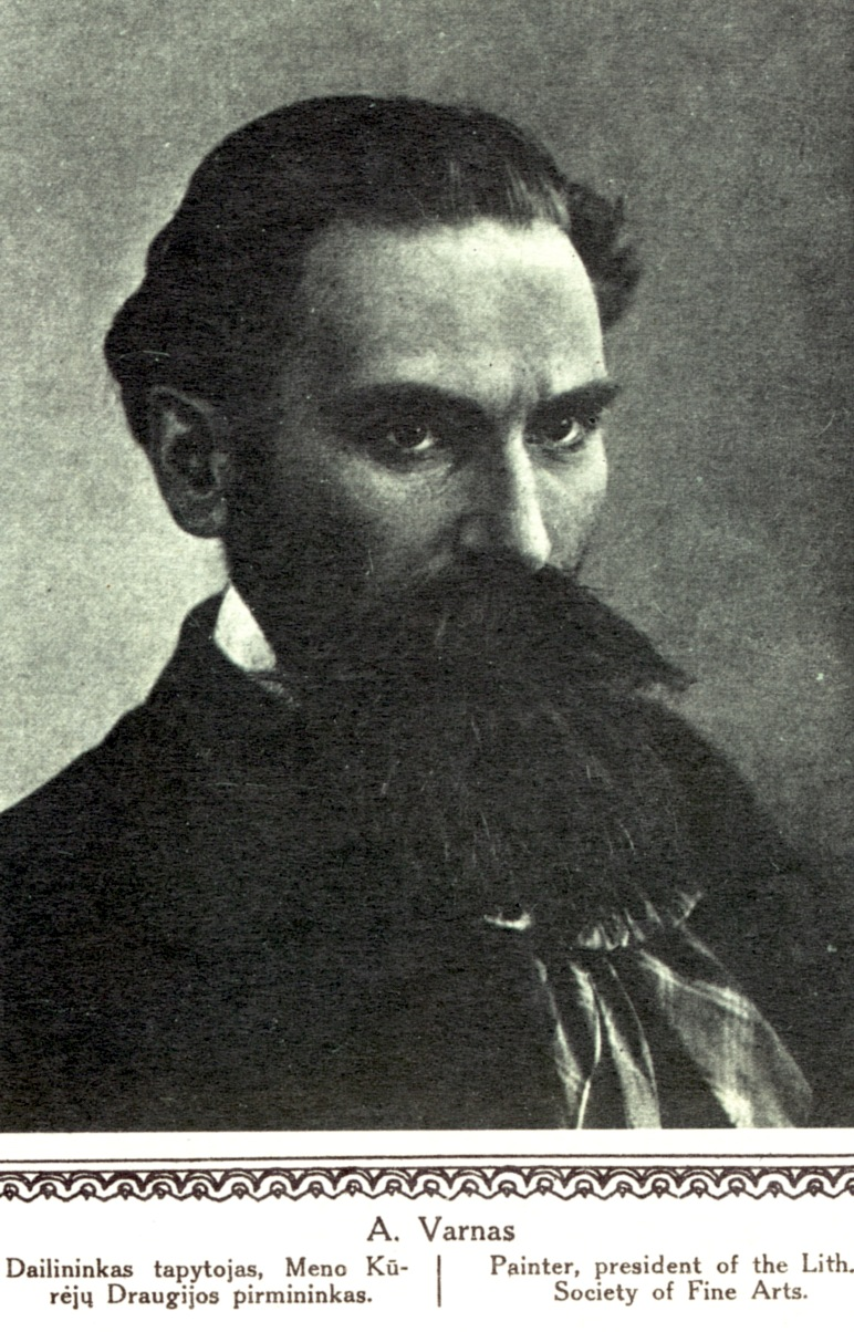 Adomas Varnas, Lithuanian painter